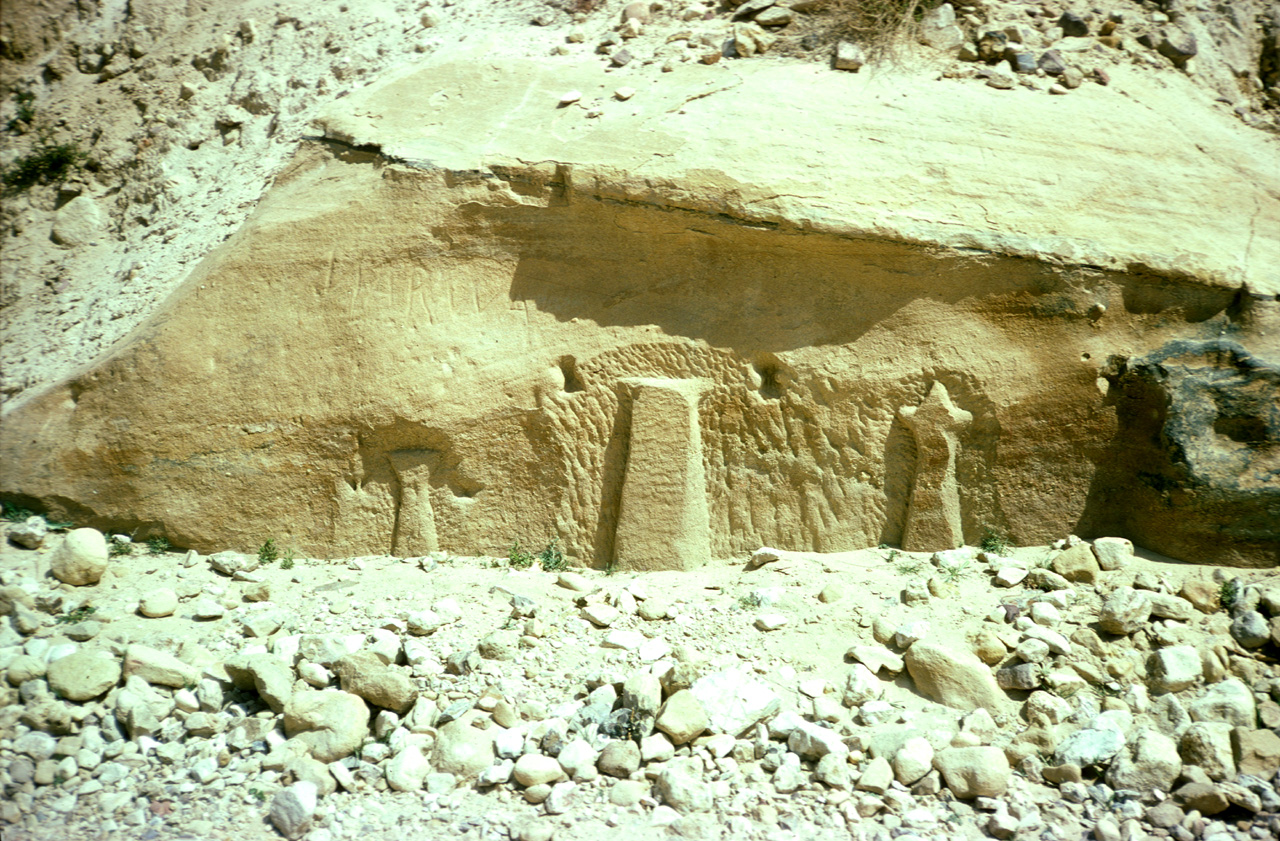 A photograph of the inscription using the name "Rekem", the Nabatean name for Petra, sited opposite the entrance to the Siq in Petra, but now covered by the abutments of a concrete bridge.